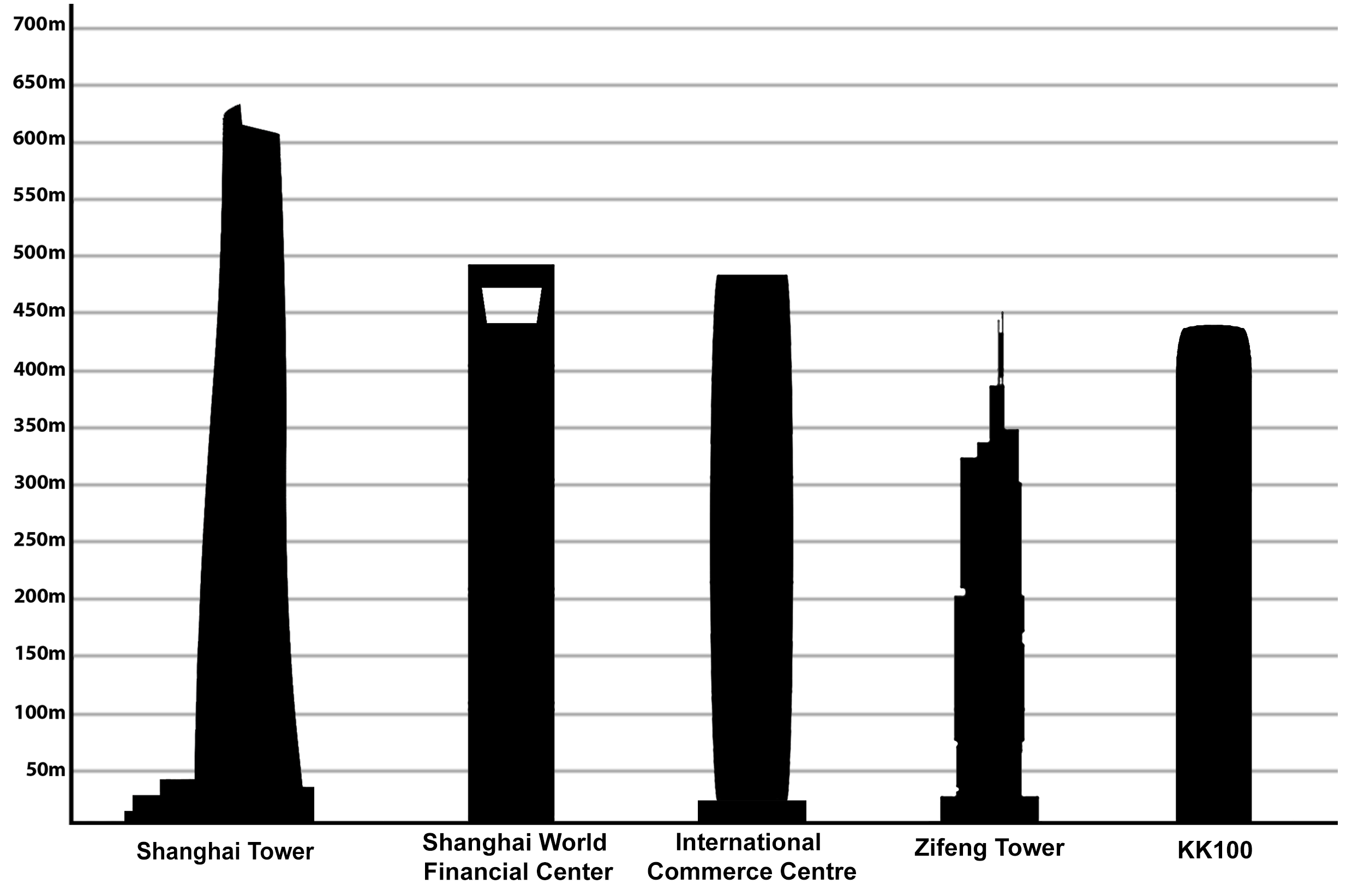 The tallest buildings in China; Used data from .